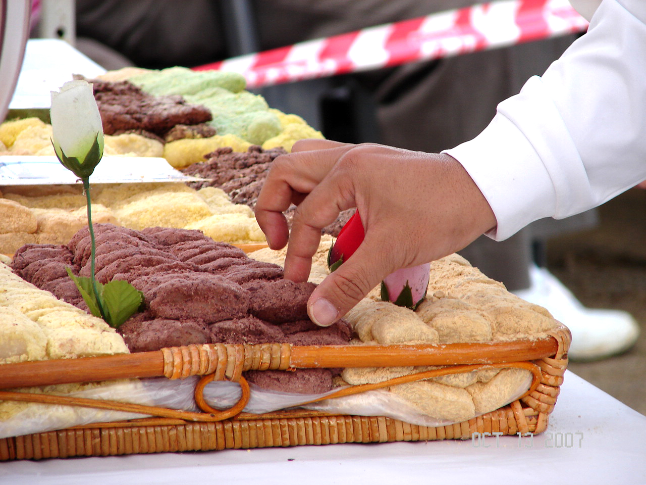 Presenting Rice Cake for judging at the Seorak Festival in Sokcho